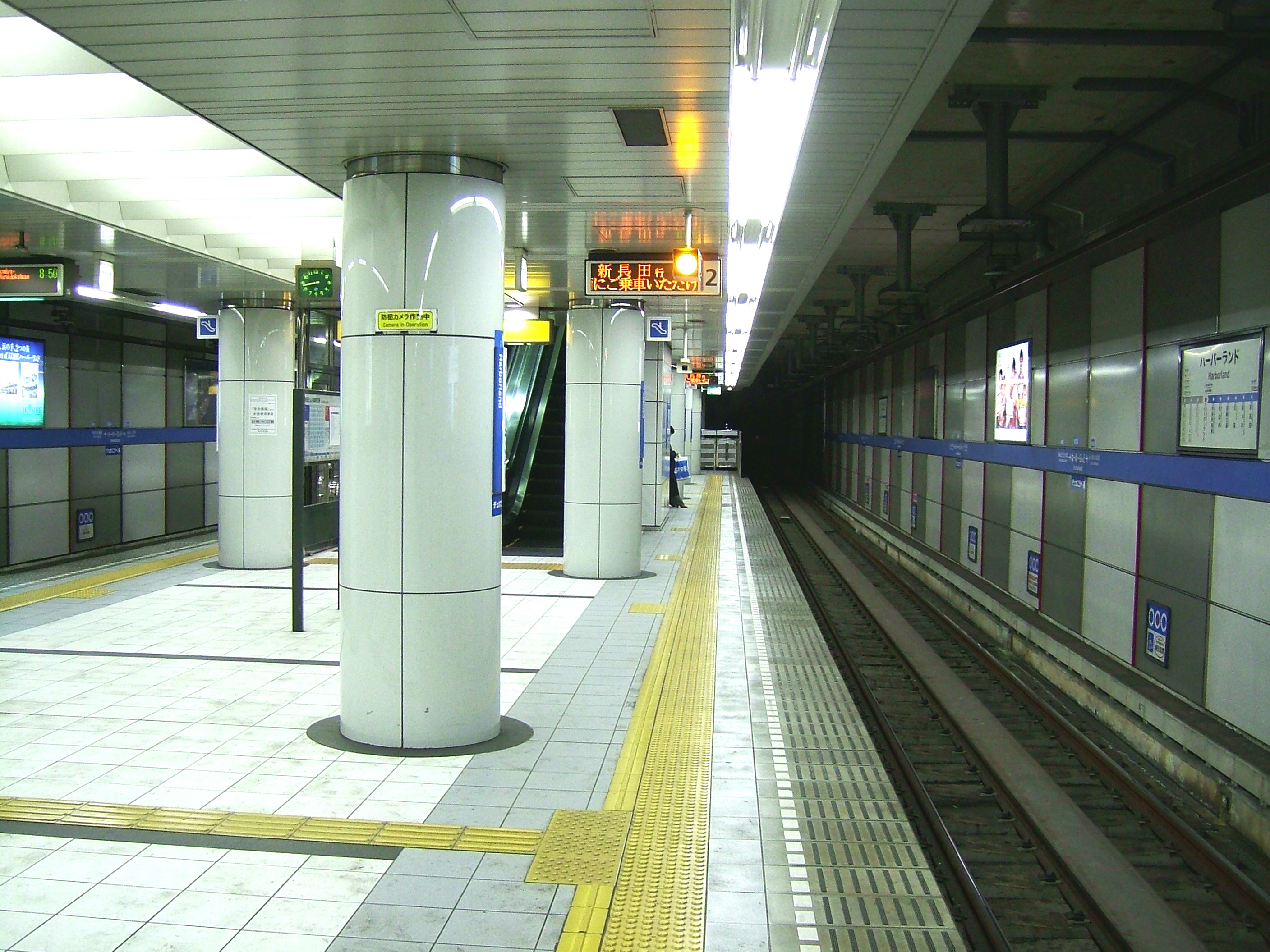 The platform at Harborland Station on the Kobe Municipal Subway Kaigan Line